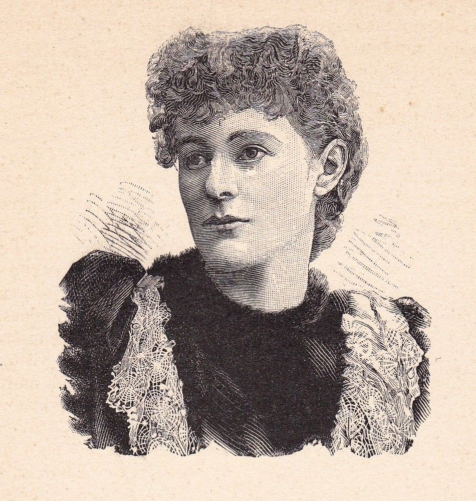 Irish revolutionary Maud Gonne (1866-1953)